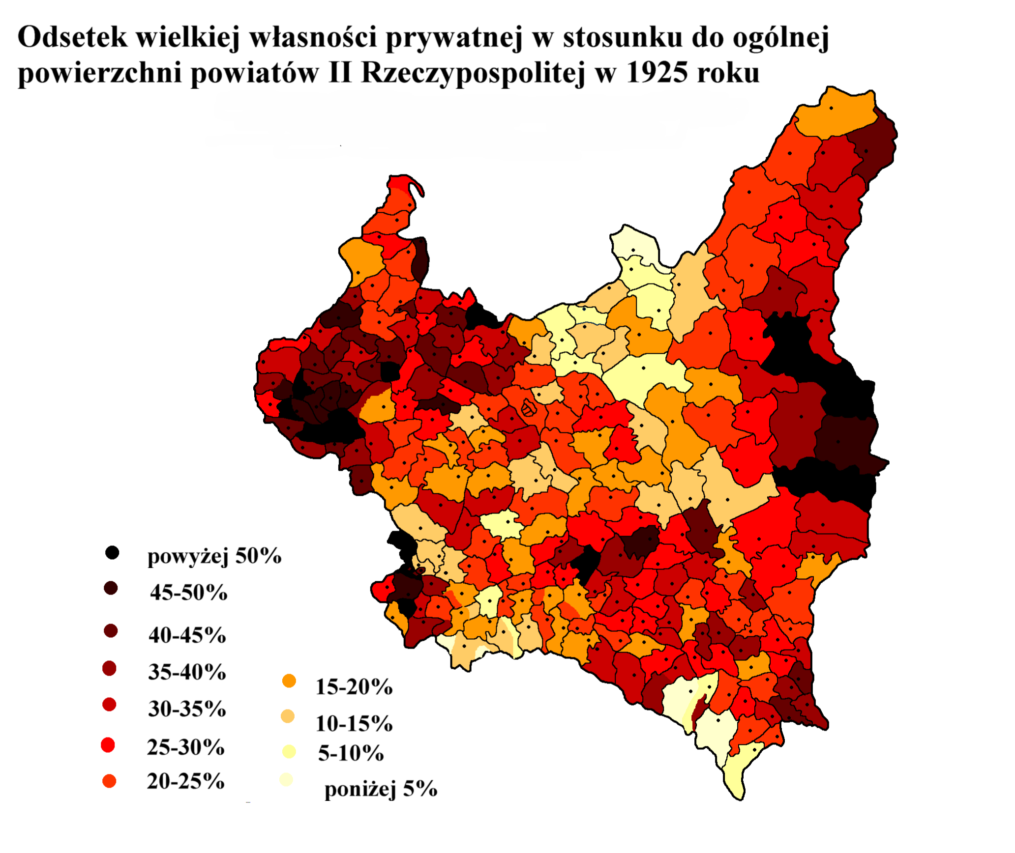 The percentage of large private property in relation to the total area of the poviats of the Second Polish Republic in 1925